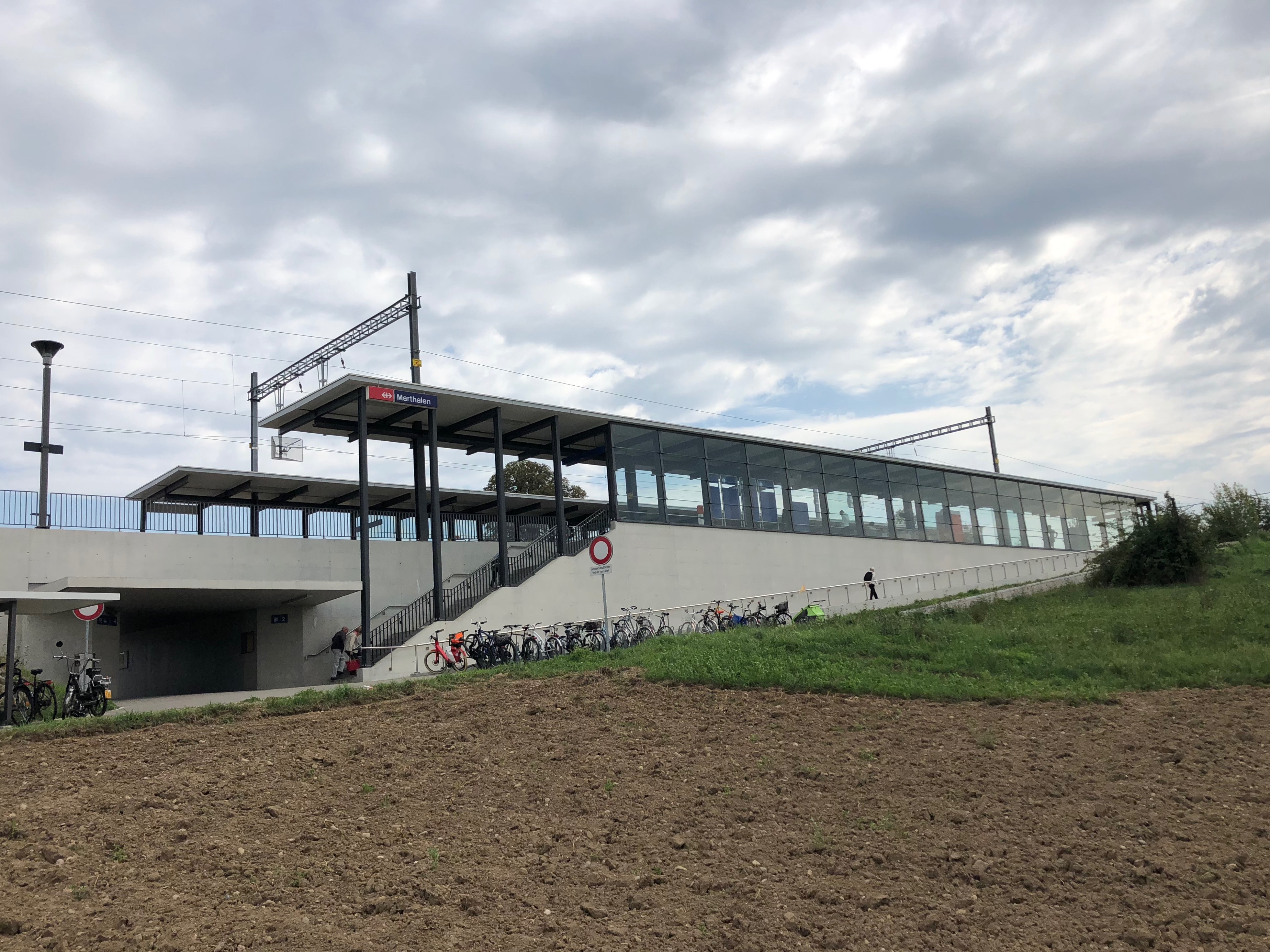 Bahnhof Marthalen